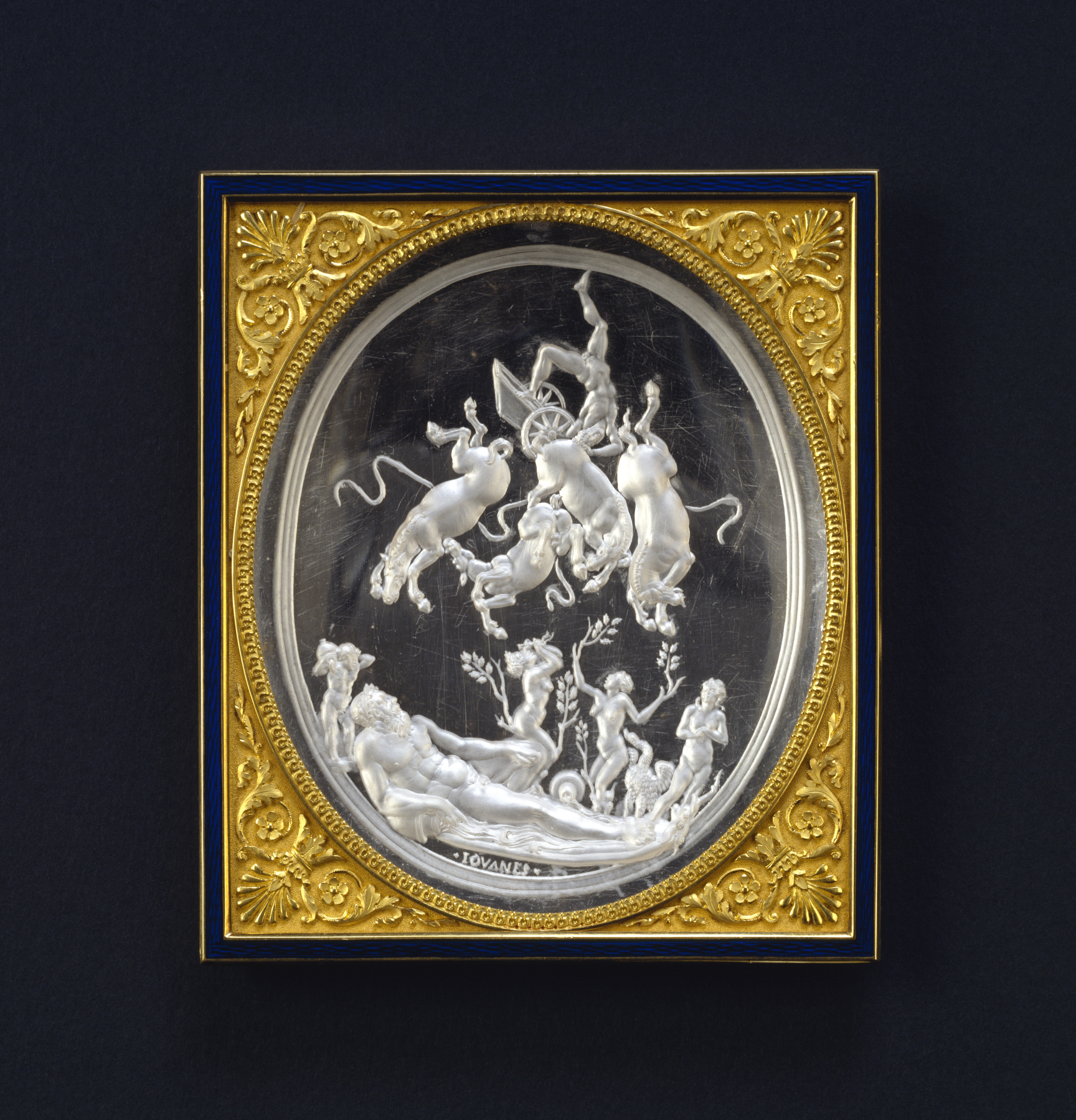 The story of Phaeton, or Pheathon, is described in "The Metamorphoses" by the Roman poet Ovid (43 BC-AD 17). Son of the sun-god Helios, Phaeton once decided to drive his father's chariot across the sky. When he lost control of the horses, endangering the earth, Jupiter killed him with a thunderbolt. Here, Phaeton's mourning sisters are being transformed into trees. Ovid wrote that their tears became amber, carried away by the Eridanus River (today known as the Po River), symbolized by the reclining river god. The swan is Cycnus, Phaeton's friend who was transformed through his grief into a bird. Bernardi, one of the most important engravers of rock crystal of the Renaissance, made this piece in Rome for Cardinal Ippolito de' Medici (1511-35). It copies a famous design by Michelangelo.